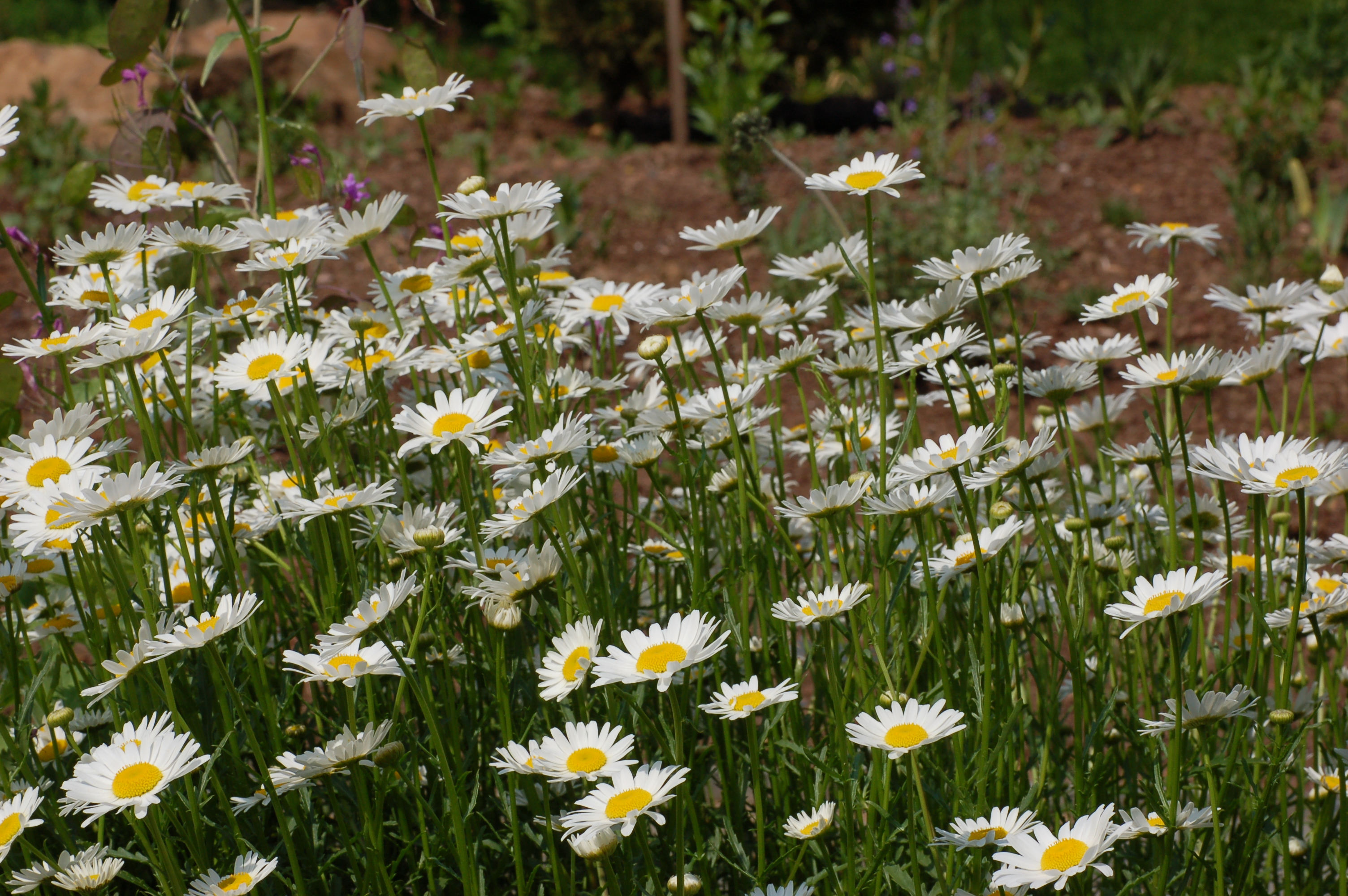 Picture of the flowers of the Oxeye Daisyen (Leucanthemum vulgare en 'Filigran'). Photo taken in the Pond Garden Bed 2 at the Chanticleer Garden.